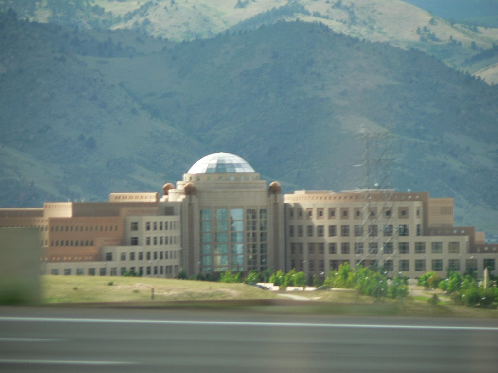 Courthouse from I70